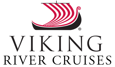 Viking River Cruises logo